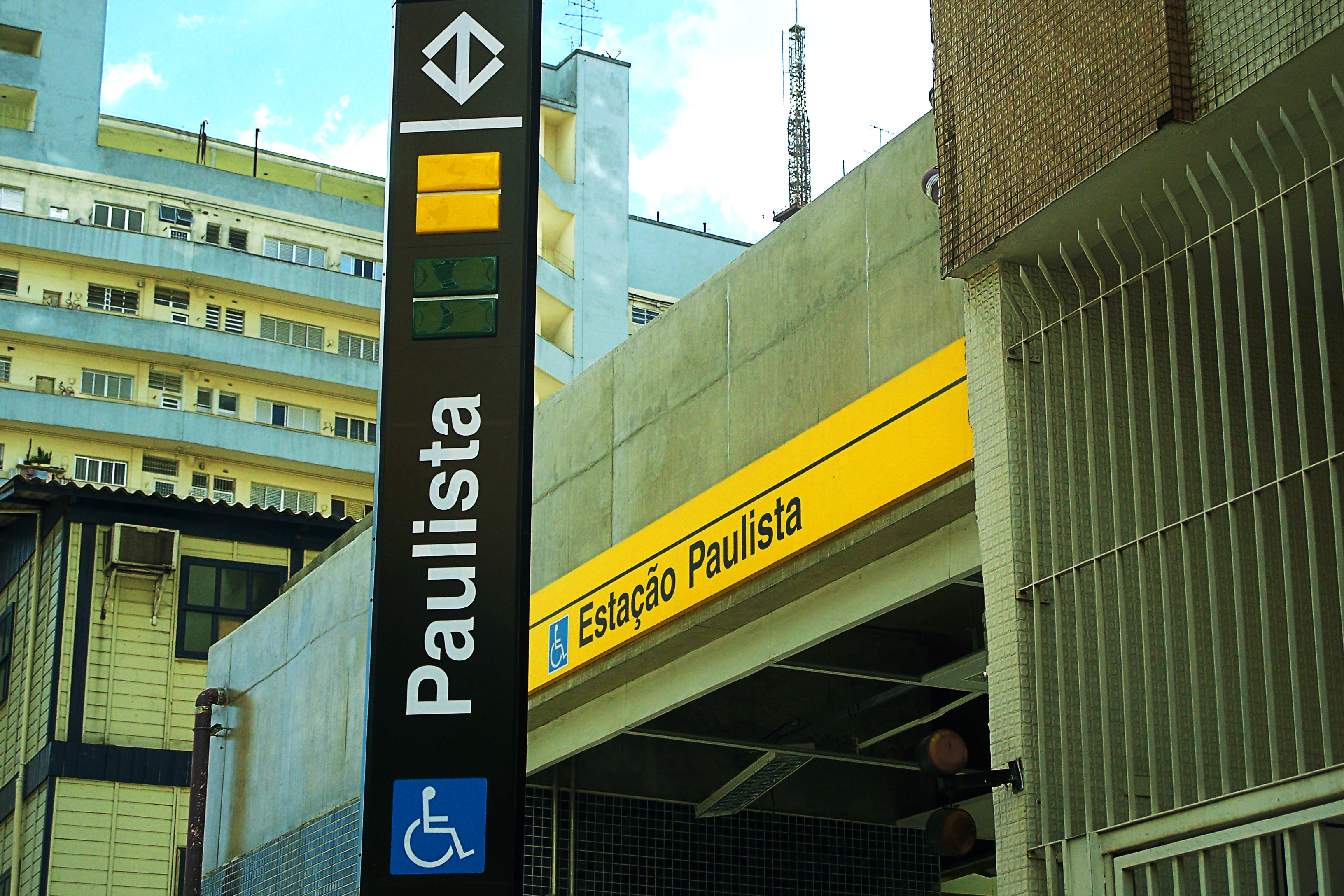 Façade of one of the entrances of Paulista station at Rua da Consolação, in São Paulo, Brazil.